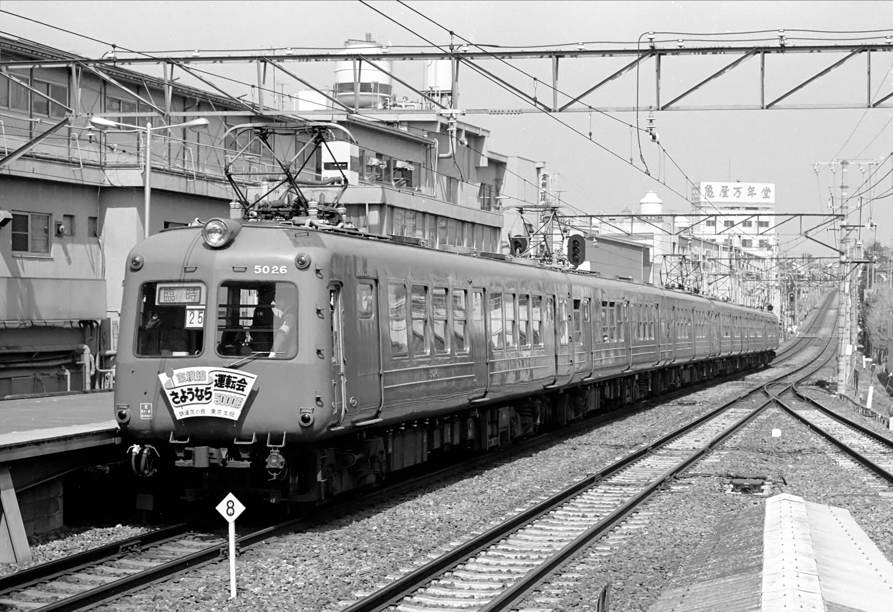 Tokyo Kyuko Kabushikigaisha 5000 series EMU on the last run in Toyoko line at Jiyugaoka station.